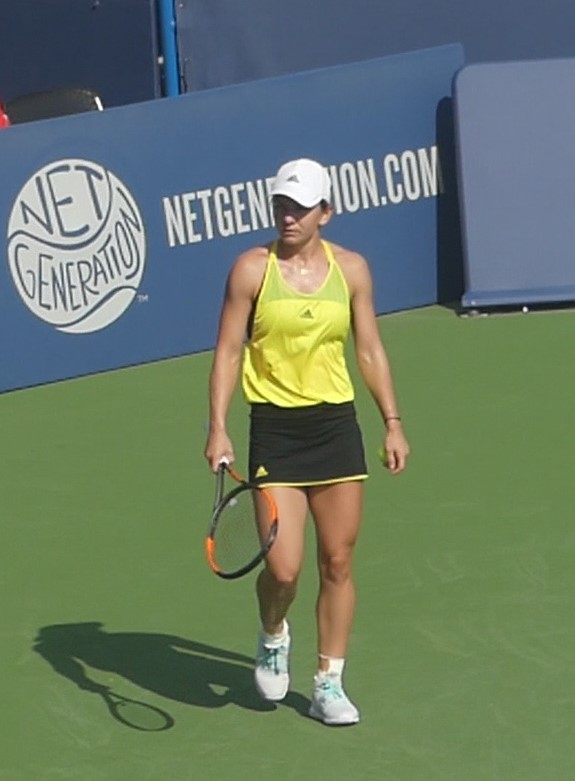 Halep during her second round match of the 2017 Western and Southern Open against qualifier Taylor Townsend.